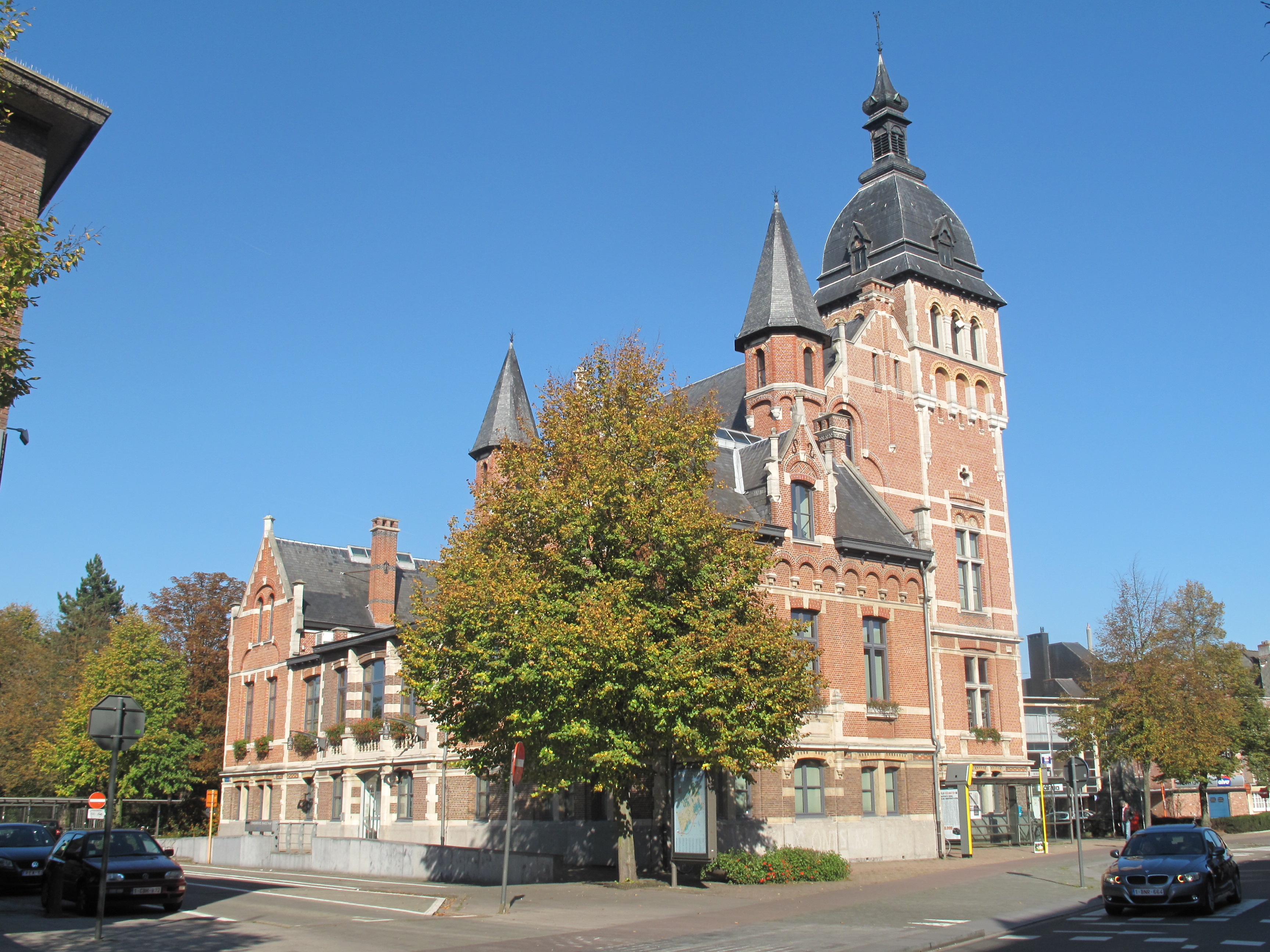 Brasschaat, monumental house